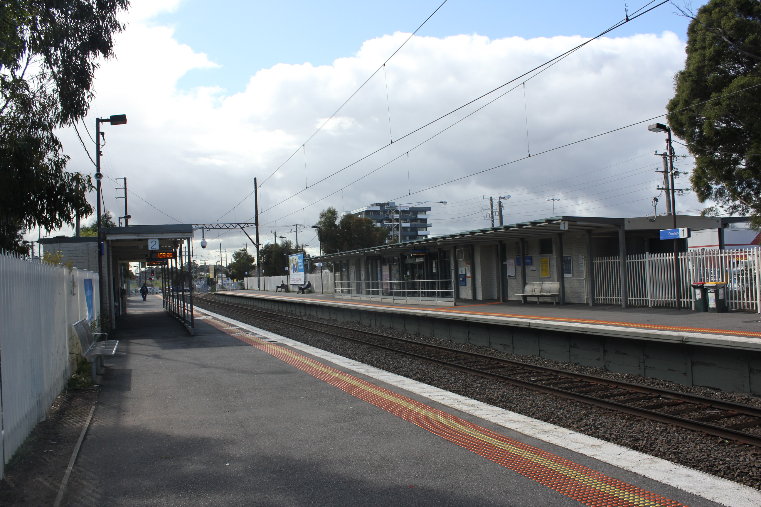 Preston railway station, looking towards South Morang, August 2015